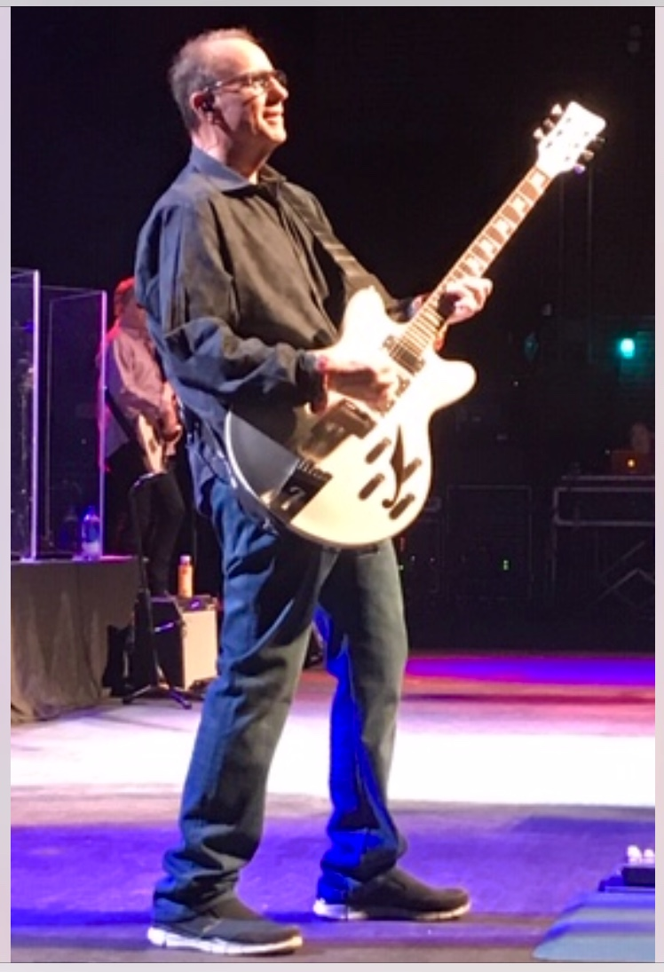 Jeffrey Foskett 2019